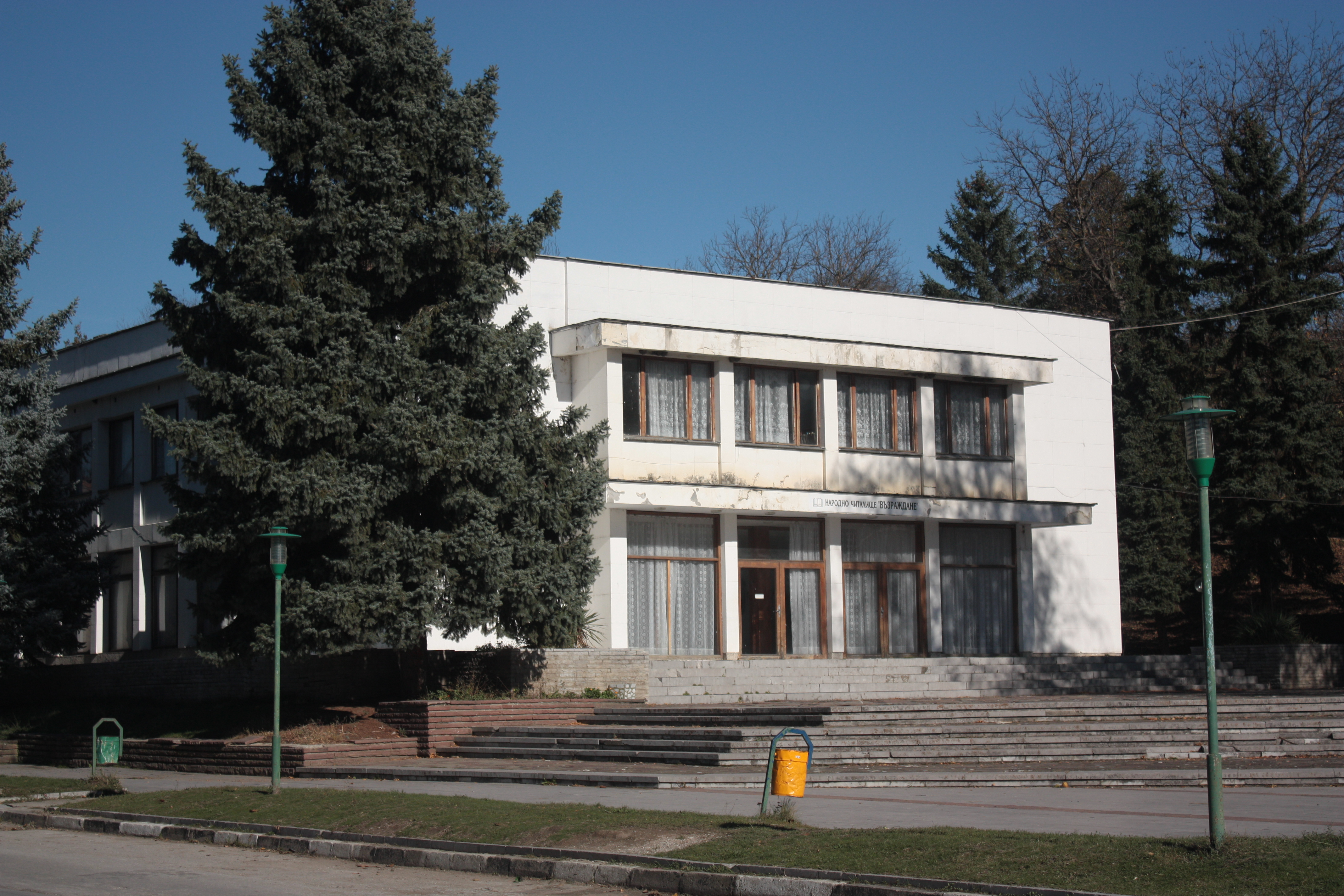 Chitalishte in Dzhurovo, Bulgaria